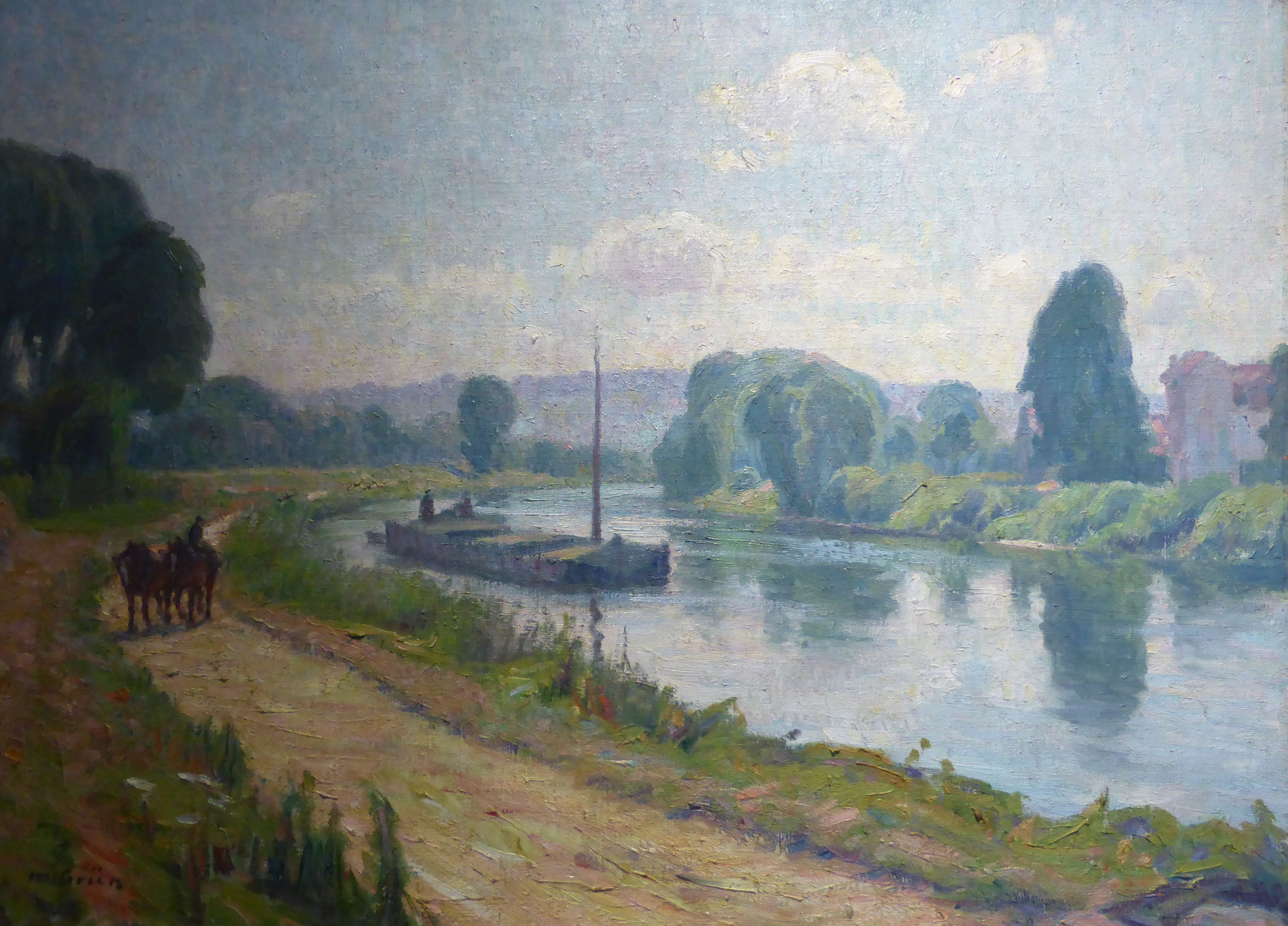 Photograph of a painting by Maurice Grün 1870-1947.